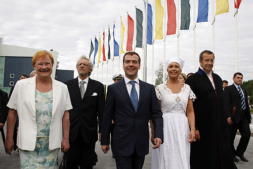 KHANTY-MANSIYSK. Before the ceremony marking the opening of the World Congress of Finno-Ugric Peoples.